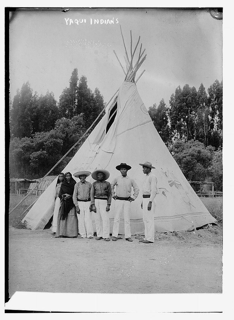 Bain News Service,, publisher. Yaqui Indians [between ca. 1910 and ca. 1915] 1 negative : glass ; 5 x 7 in. or smaller. Notes: Title from data provided by the Bain News Service on the negative. Photo shows Yaqui (Yoeme) Indians. (Source: Flickr Commons project, 2010) Forms part of: George Grantham Bain Collection (Library of Congress). Format: Glass negatives. Repository: Library of Congress, Prints and Photographs Division, Washington, D.C. 20540 USA, General information about the Bain Collection is available at Higher resolution image is available (Persistent URL): Call Number: LC-B2- 2208-7